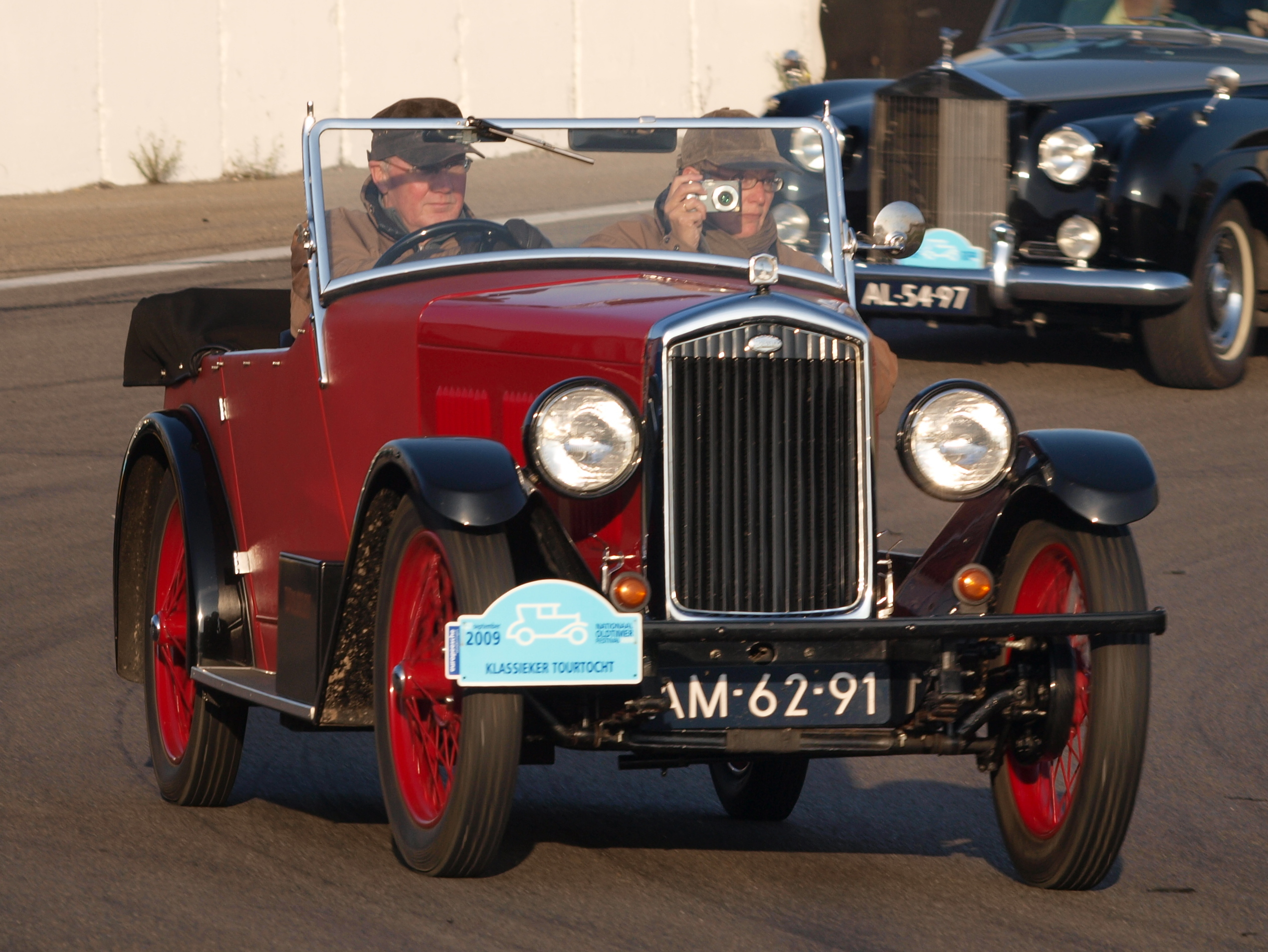 Photographed at the Nationaal Oldtimer Festival Zandvoort 2009, The Netherlands. Wolseley Hornet cabriolet 6-cylinders 1271 cc 25bhp 4-seater OLYMPUS DIGITAL CAMERA